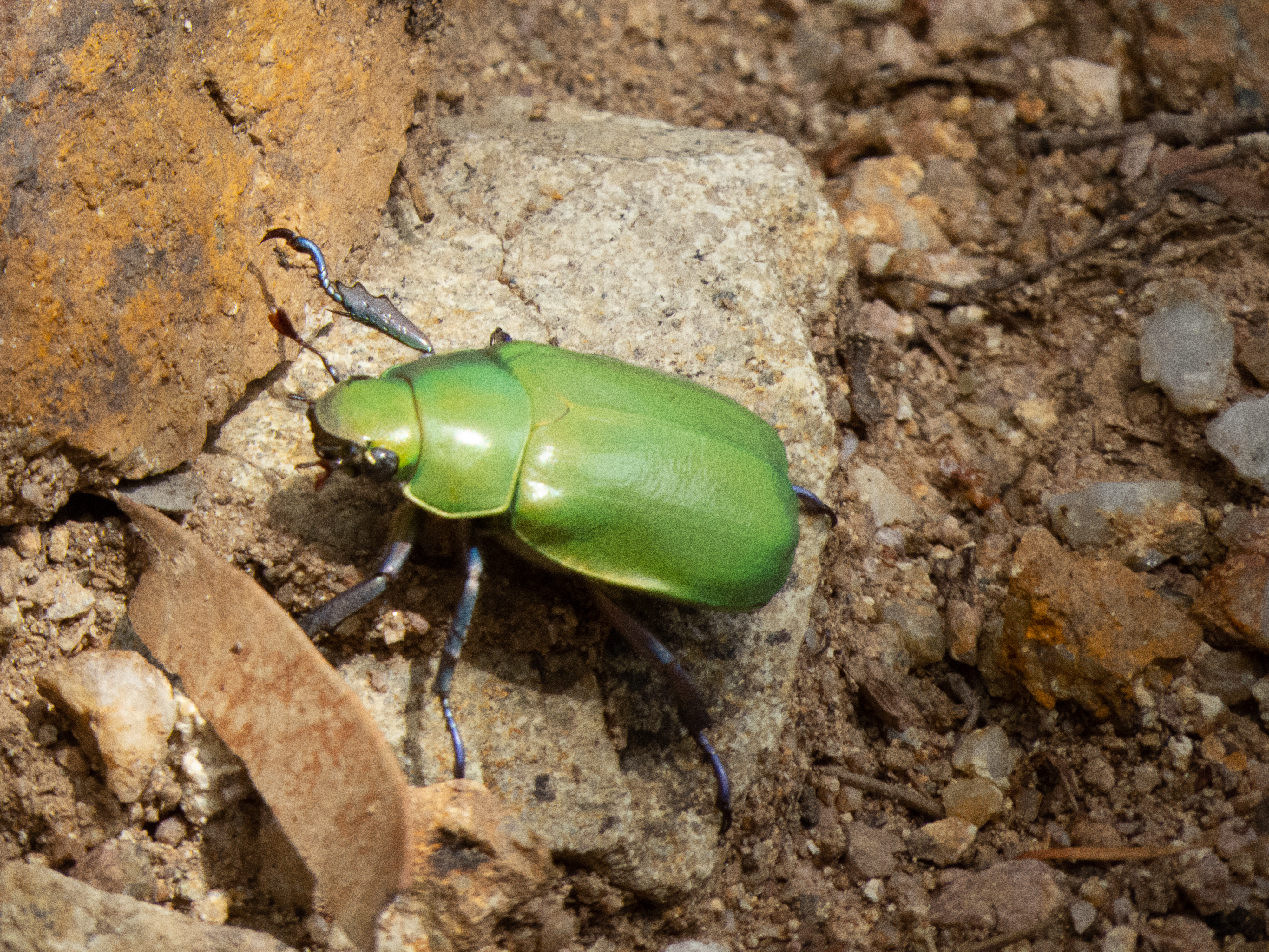 Beyer's Scarab Beetle | Ramsey Canyon | Sierra Vista | AZ|2018-07-26|10-27-06